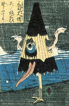 Kasa-obake (からかさ小僧, a paper umbrella monster) from the Mukashi banashi bakemono sugoroku (百種怪談妖物雙六).